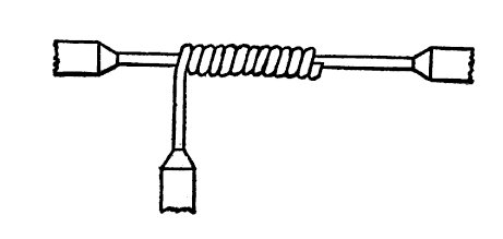 A T-splice made of wire. One wire is spliced onto a longer, usually pre-existing wire.